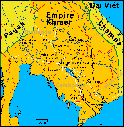 French Map of Khmer Empire under Jayavarman VII.